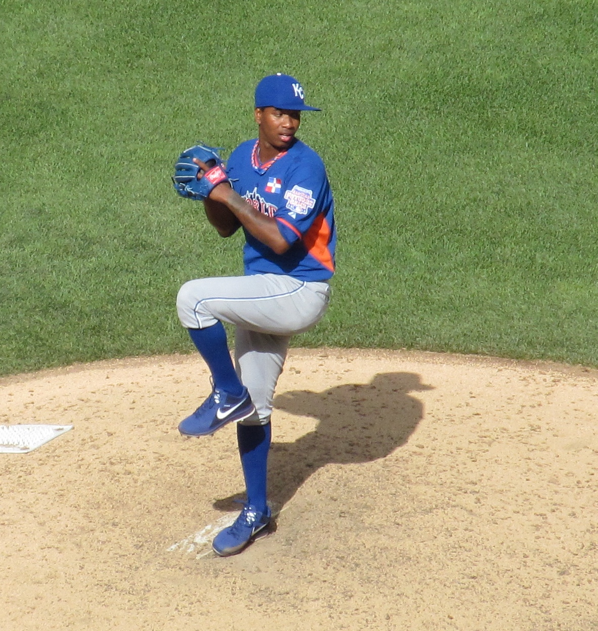 Yordano Ventura pitching in the Futures Game at Citi Field in New York City on 2013 July 14th